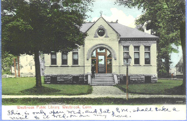 Postcard: Westbrook Public Library, Westbrook, 1906 postmark Description: Caption: "Westbrook Public Library, Westbrook, Conn." Message: "This is only open Wed. and Sat. P.M. Shall take a visit to it Wed. on our way home." Store Web page states: "Postcard, Pub by W J Neidlinger, Westbrook, Conn, [...] Undivided Back [a type used from 1901-1907], Postally Used - PM Westbrook, Conn Aug 10, 1906, One Cent Stamp Intact"